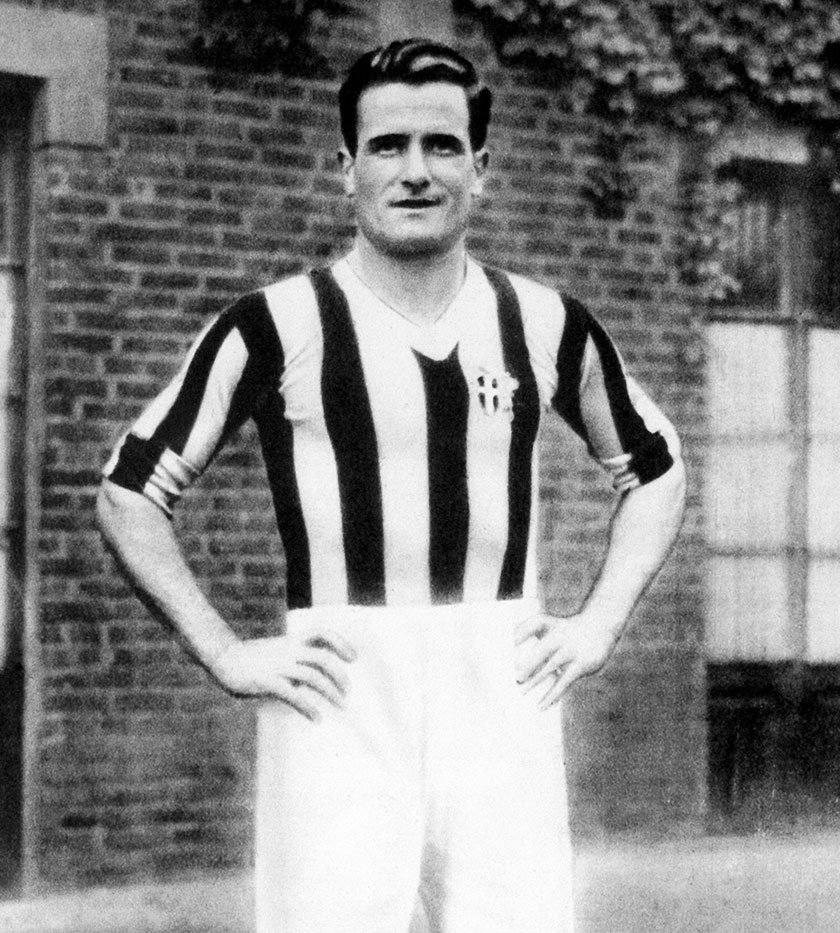 Italian-Argentine footballer Luis Felipe Monti with F.B.C. Juventus in the early 1930s, posing outside the Campo Juventus in Turin, Italy.